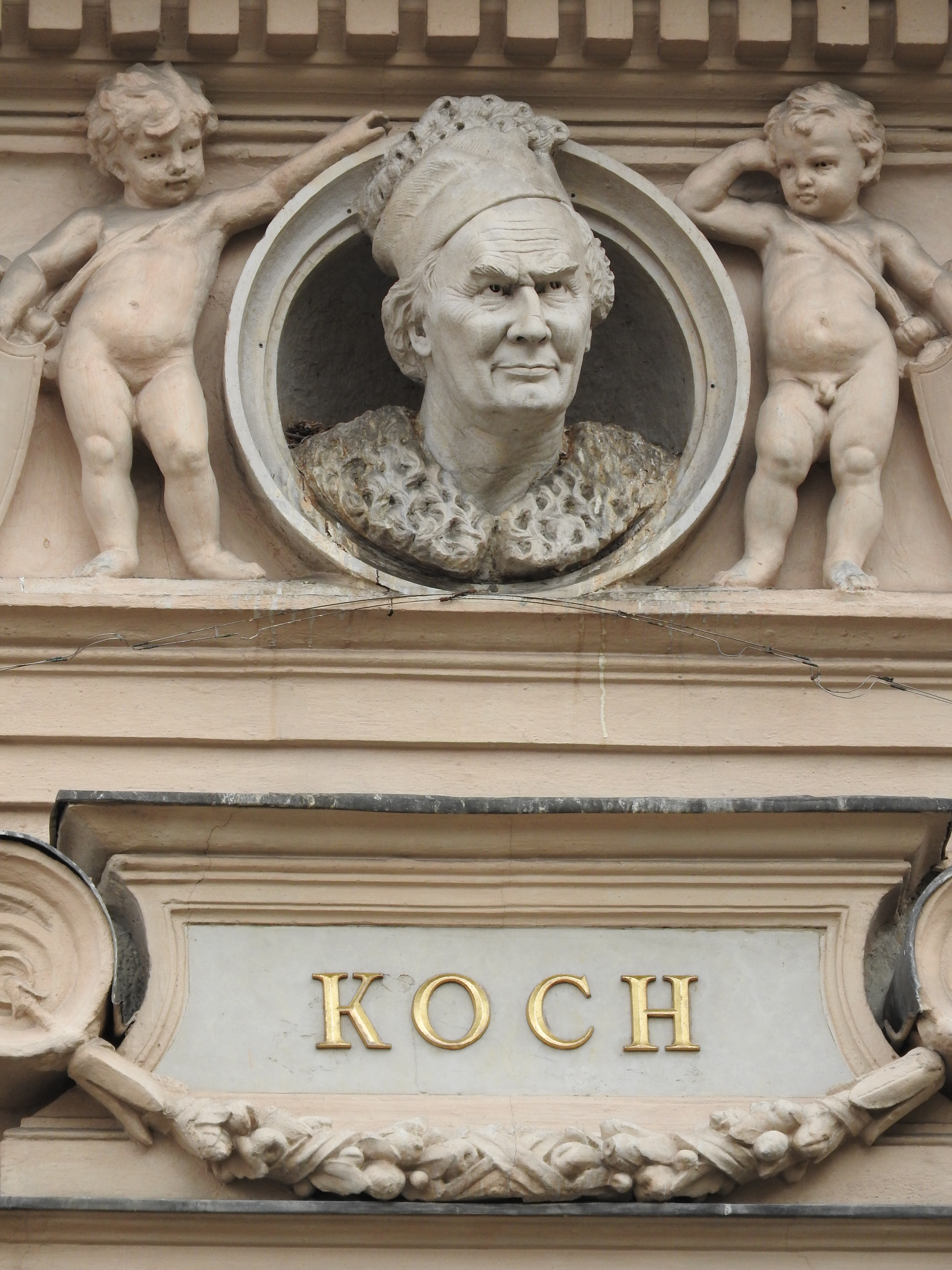 Detail of the front of Ferdinandeum in Innsbruck, Austria